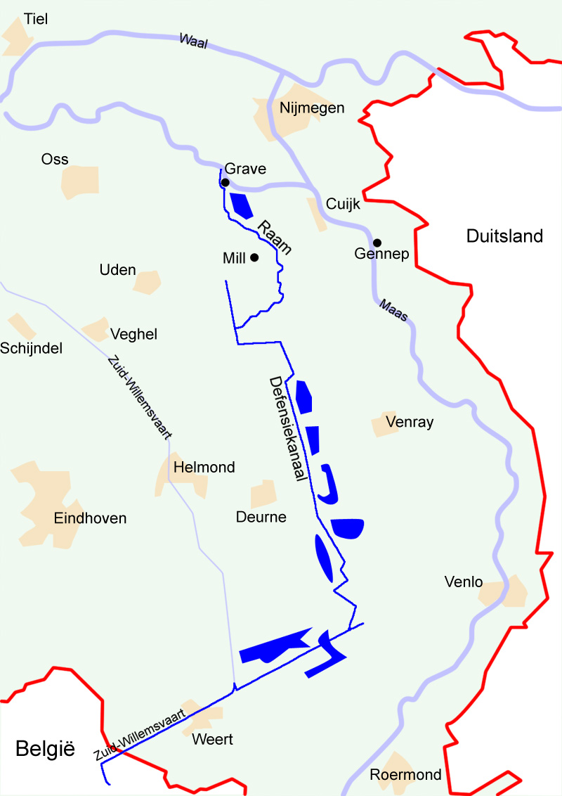 "Peel-Raamstelling" (military defensive line) in the Netherlands. The line was used during the German invasion in may 1940 WWII. Disclaimer: The exact location of the forts and inundation areas may differ from reality to a slight extent. Made by Niels Bosboom.